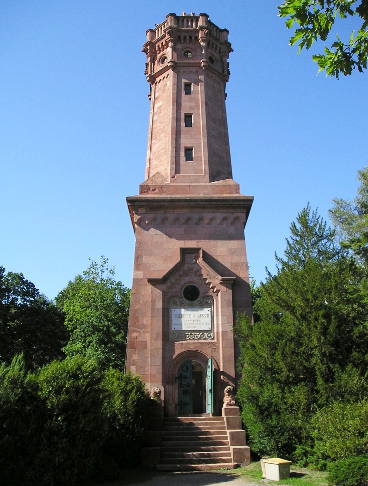 Friedrich-August-Turm (Station 14) im Rochlitzer Porphyr am 31.08.2008 Creative Commons Licence BY 2.0 Quellenangabe / Credit: Photo by Maja Dumat